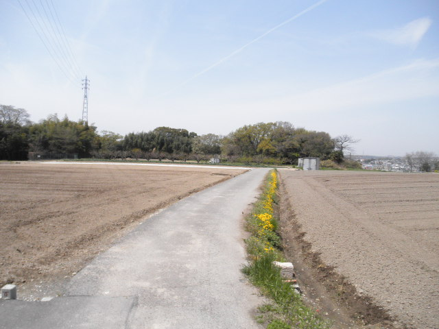 Ikawadanitown Beppu Nishi-ku Kobecity Hyogopref